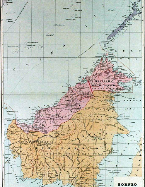 Chromolithographed map of Borneo divided into British North Borneo, Sarawak and Dutch Possessions.